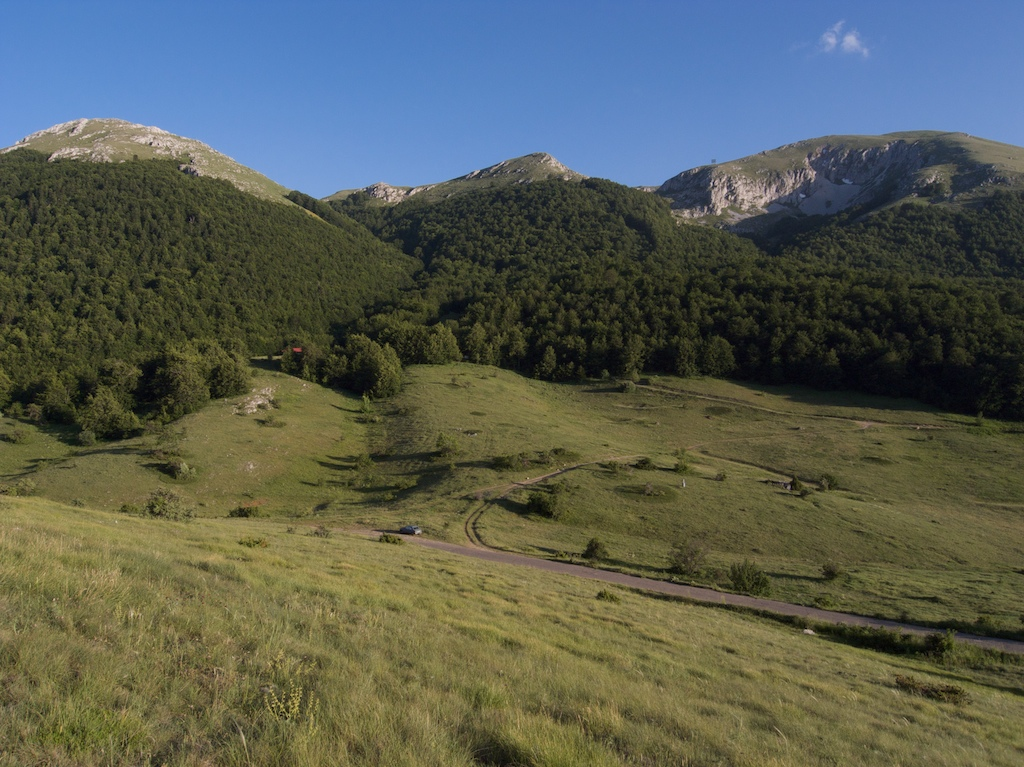 Mountain Galičica in the Republic of Macedonia